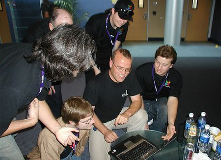 Rasmus Lerdorf (in the center) on March 23, 2007 at the OSCMS 2007 Conference at Yahoo Headquarters, talking with several developers of Joomla! between sessions.